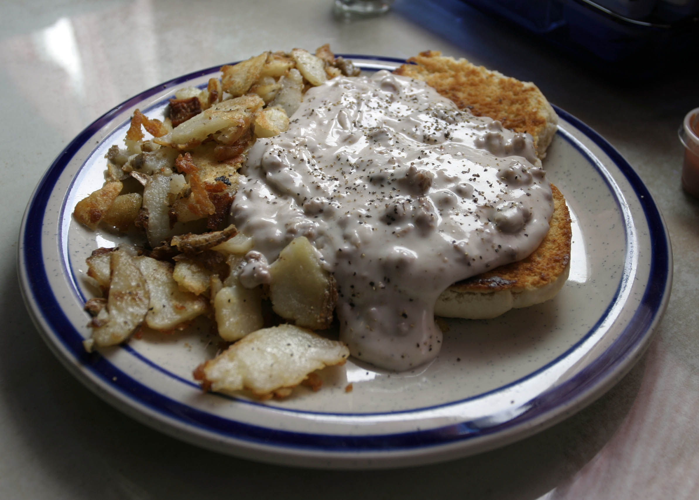 Picture of Biscuits and gravy, with a side order of home fries. Image taken by the author at Daddypop's Tumble Inn Diner in Claremont, NH, USA.